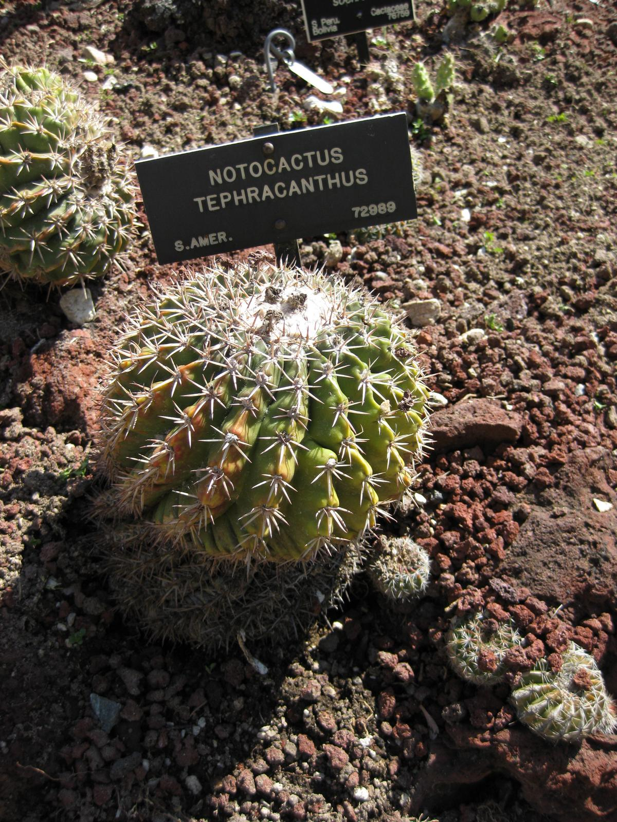 Photographed at Huntington Gardens (Los Angeles, California) in March